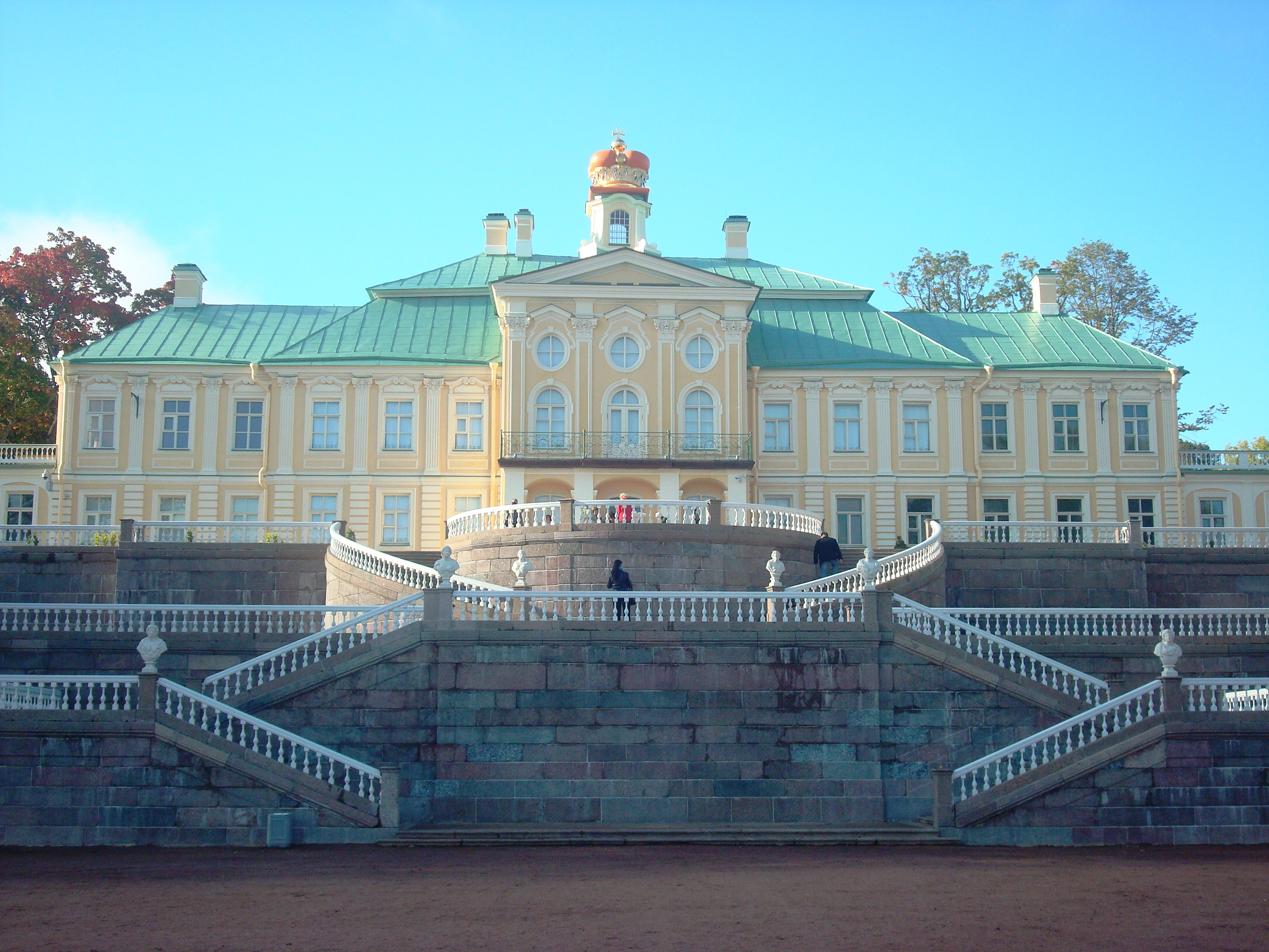 Grand Menshikov Palace in Oranienbaum, Russia